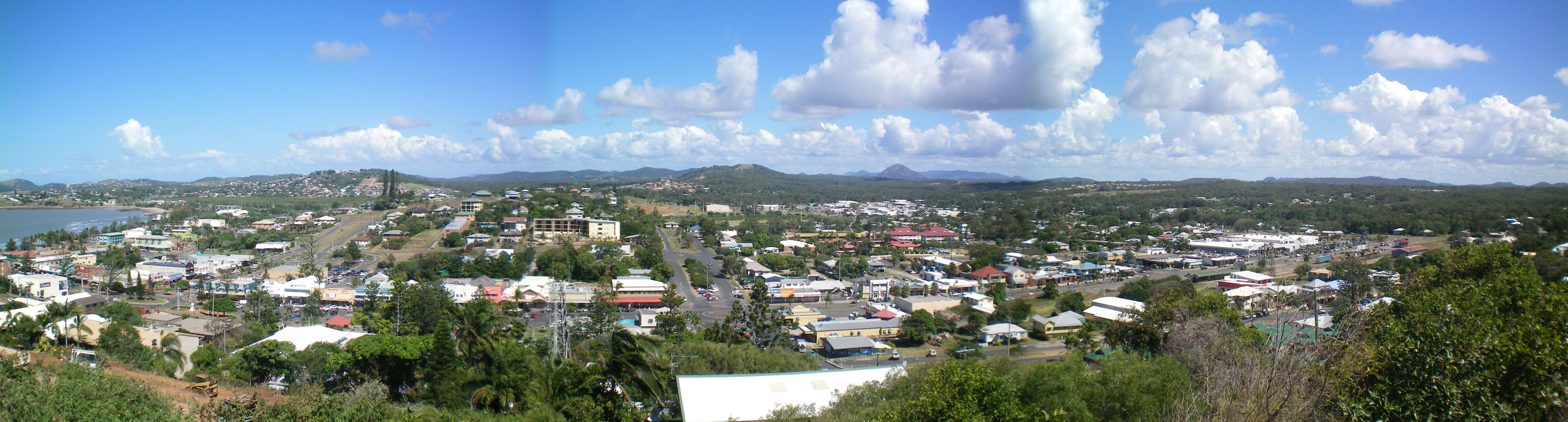 Panorama shot of Yeppoon taken with a friend's camera with automatic Panorama function